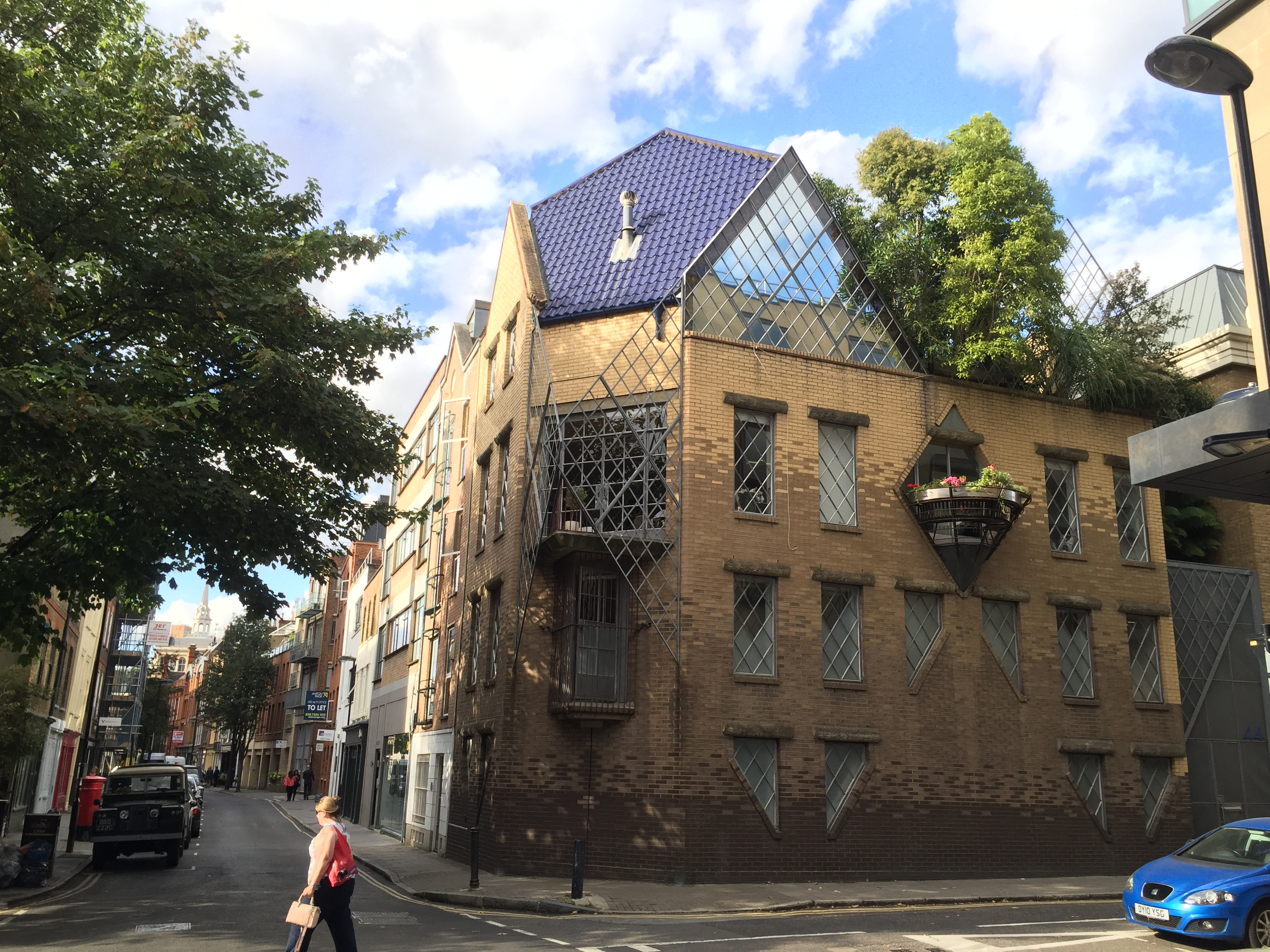 House for Janet Street-Porter at the junction of Albion Place (right) and Britton Street (left). A house designed by the architect Piers Gough in 1986-1988.